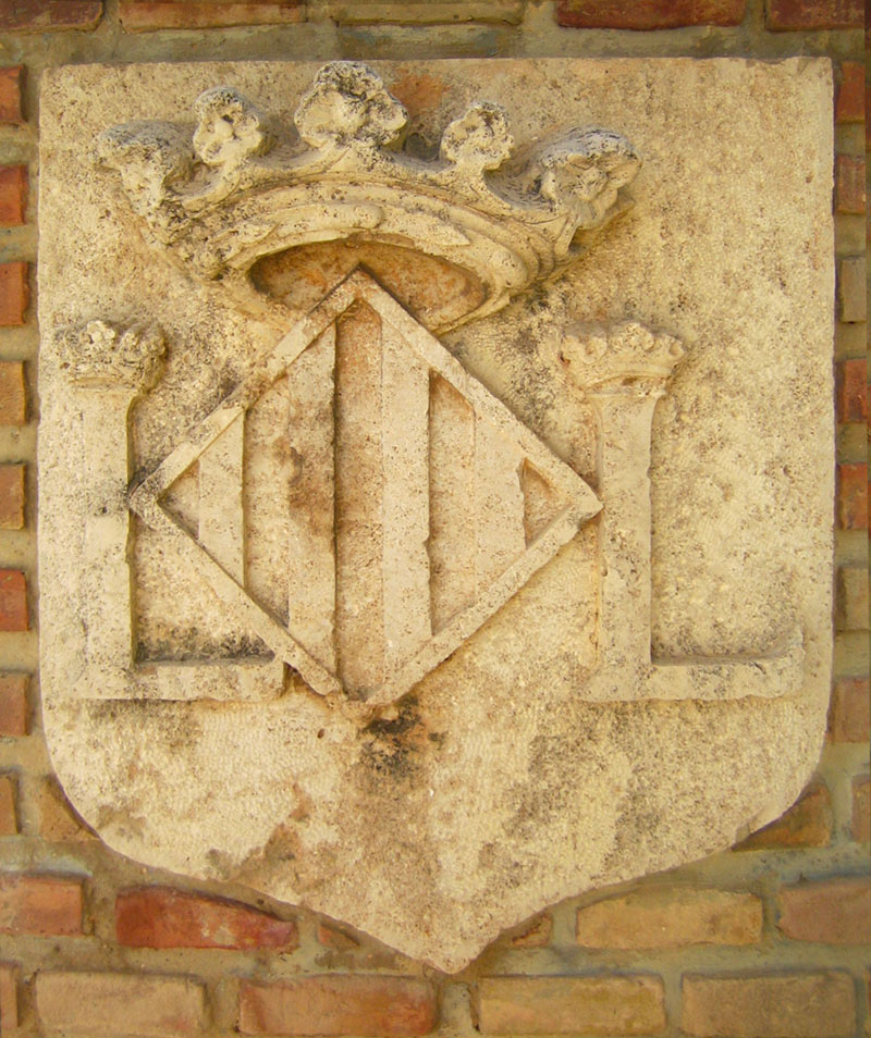 Coat of arms of the city of Valencia